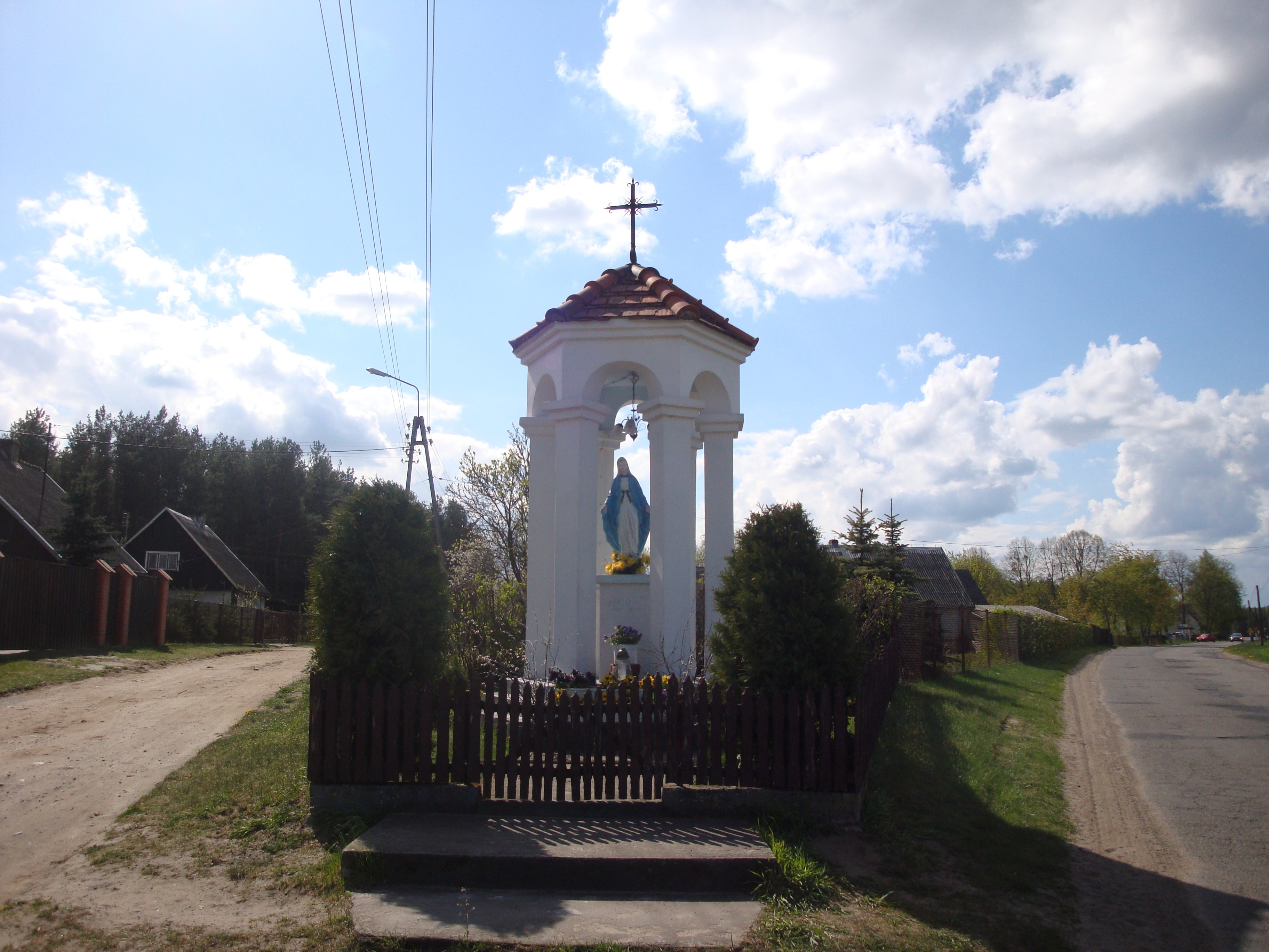 Łążek, village in Kuyavian-Pomeranian Voivodeship, Poland